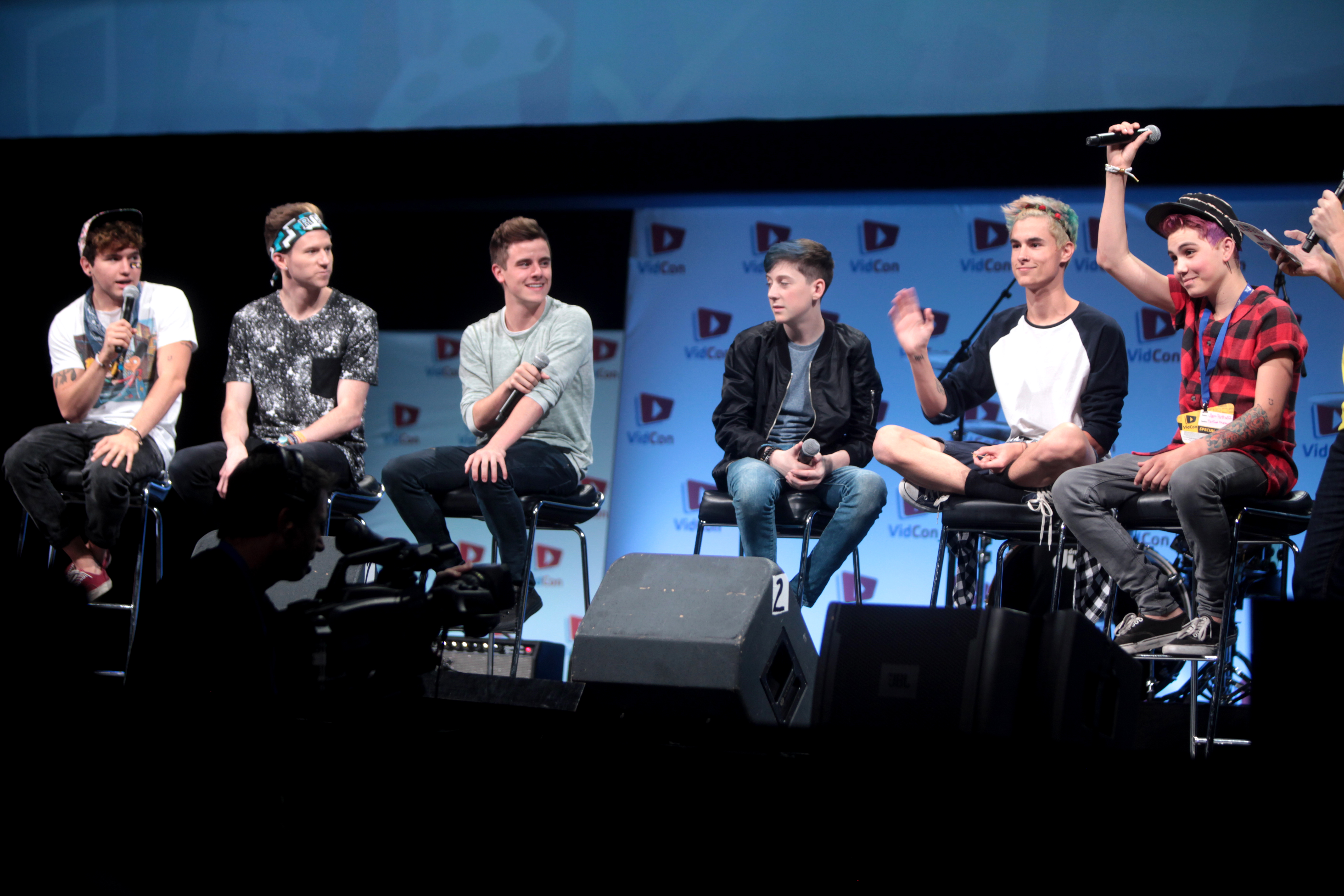 Our2ndLife (O2L) members (left to right: JC Caylen, Ricky Dillon, Connor Franta, Trevor Moran, Kian Lawley and Sam Pottorff) speaking at the 2014 VidCon at the Anaheim Convention Center in Anaheim, California.